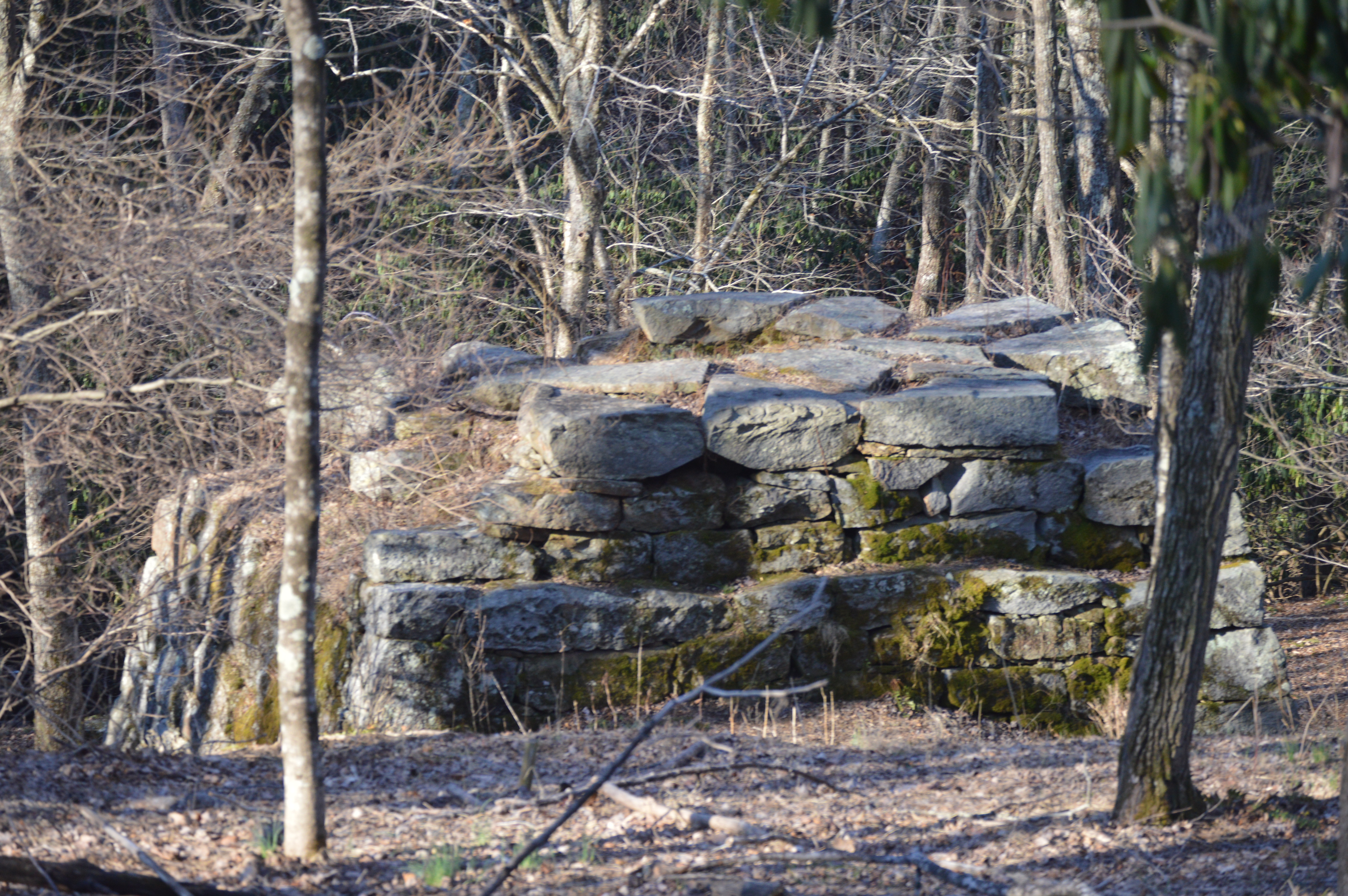 Overview from the north of the West Fork Furnace, located on Old Furnace Road east of Willis in Floyd County, Virginia, United States. Built in 1853, it is listed on the National Register of Historic Places as an archaeological site.